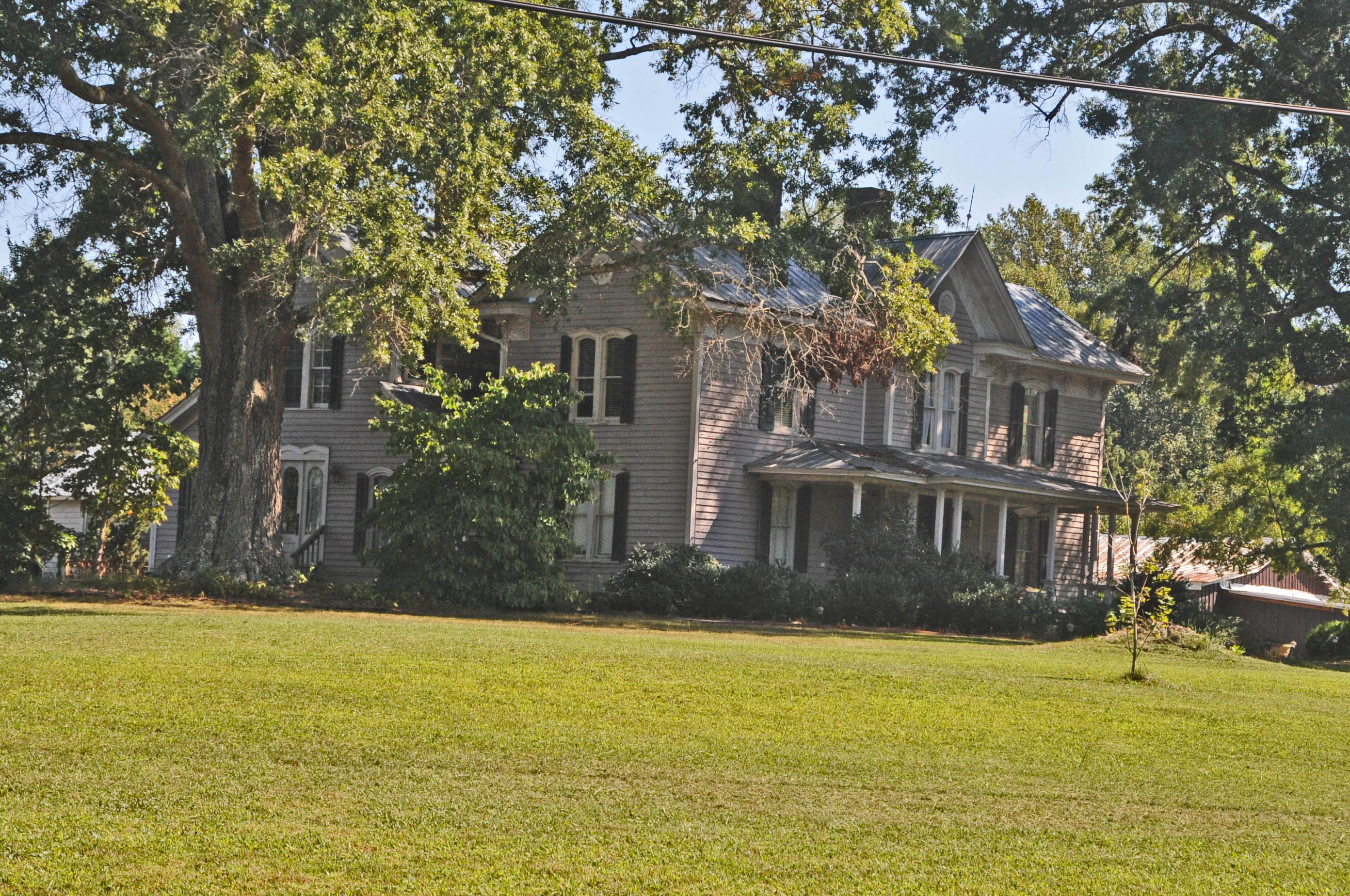 1875-1905 VICTORIAN ITALIANATE